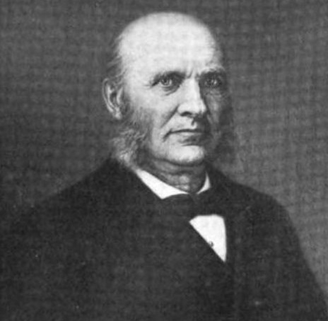 Luzon B. Morris (Connecticut Governor)